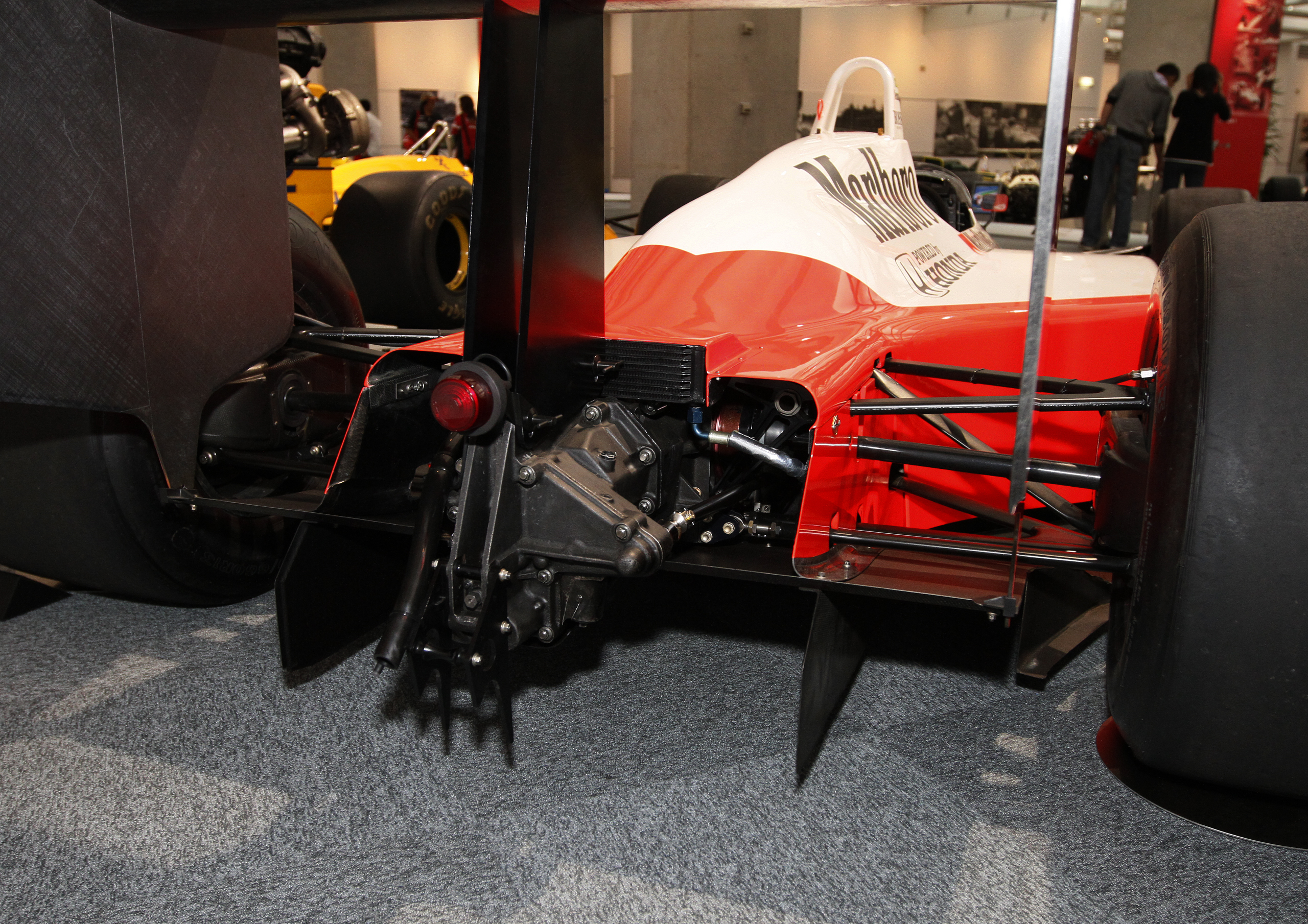 the diffuser of the McLaren MP4/4 (Chassis #5, driven by Ayrton Senna in 1988)